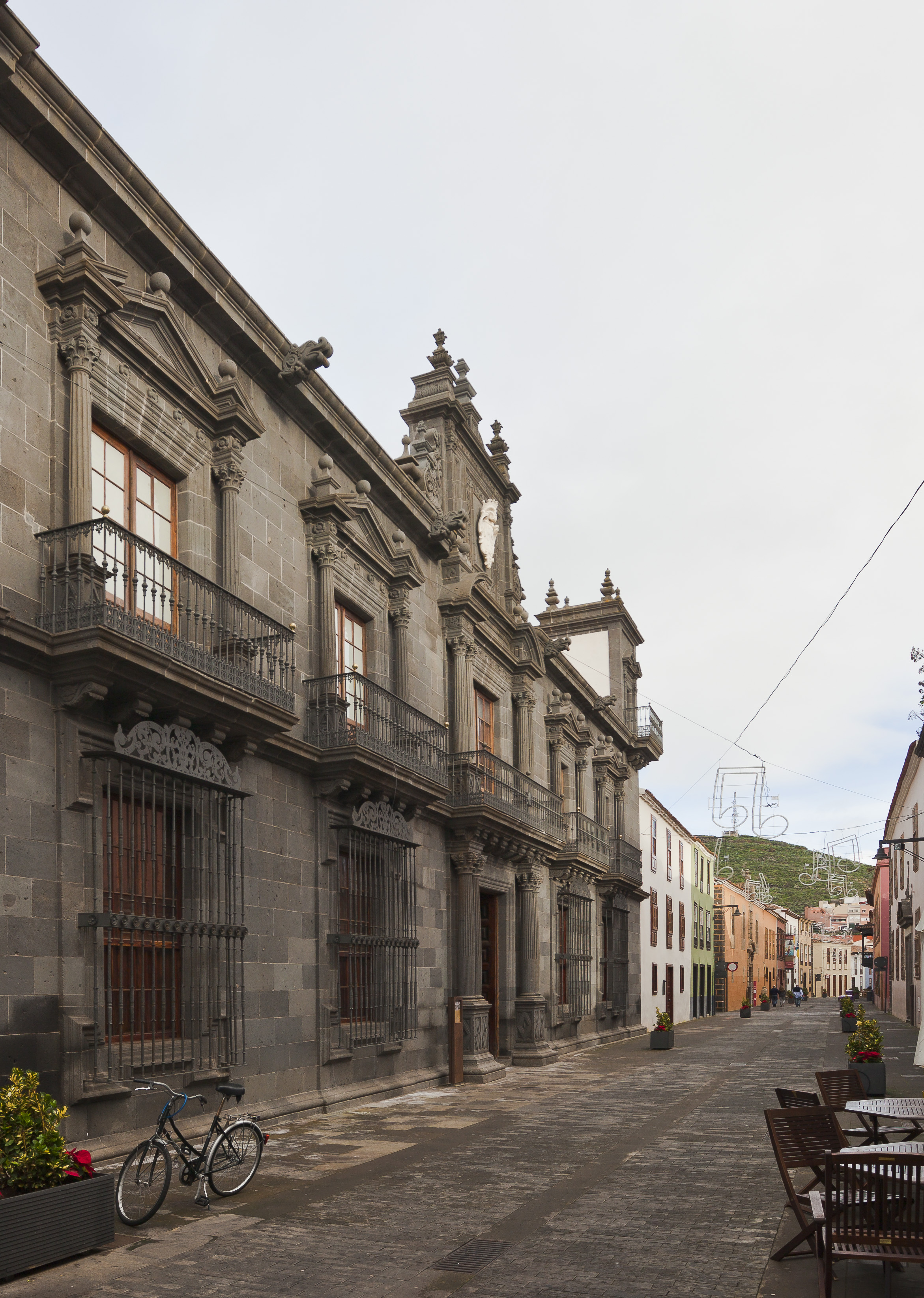 Casa Salazar, San Cristóbal de La Laguna, Tenerife, Spain